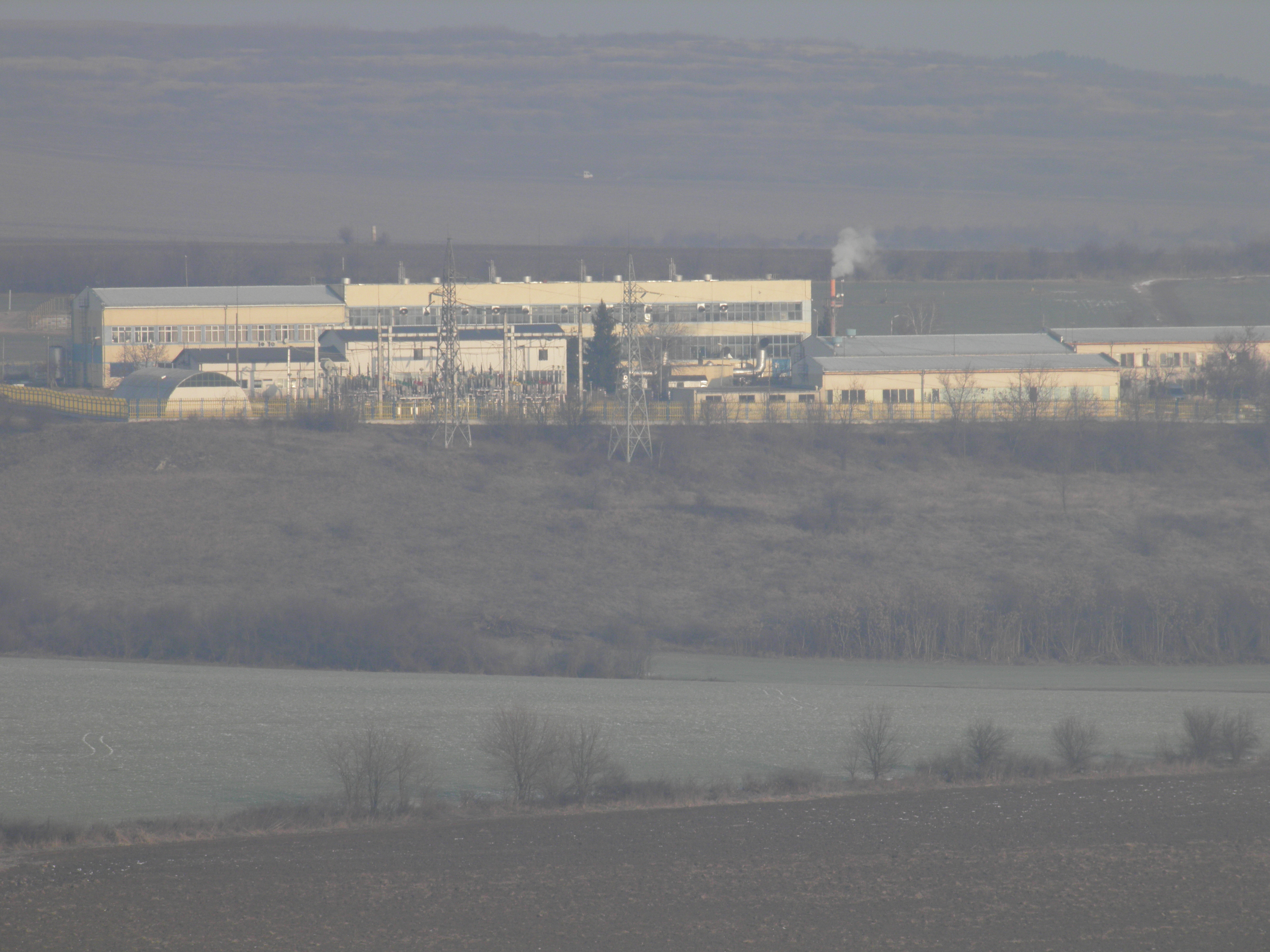 Electrical and gas distribution station in Polski Senovets,Bulgaria